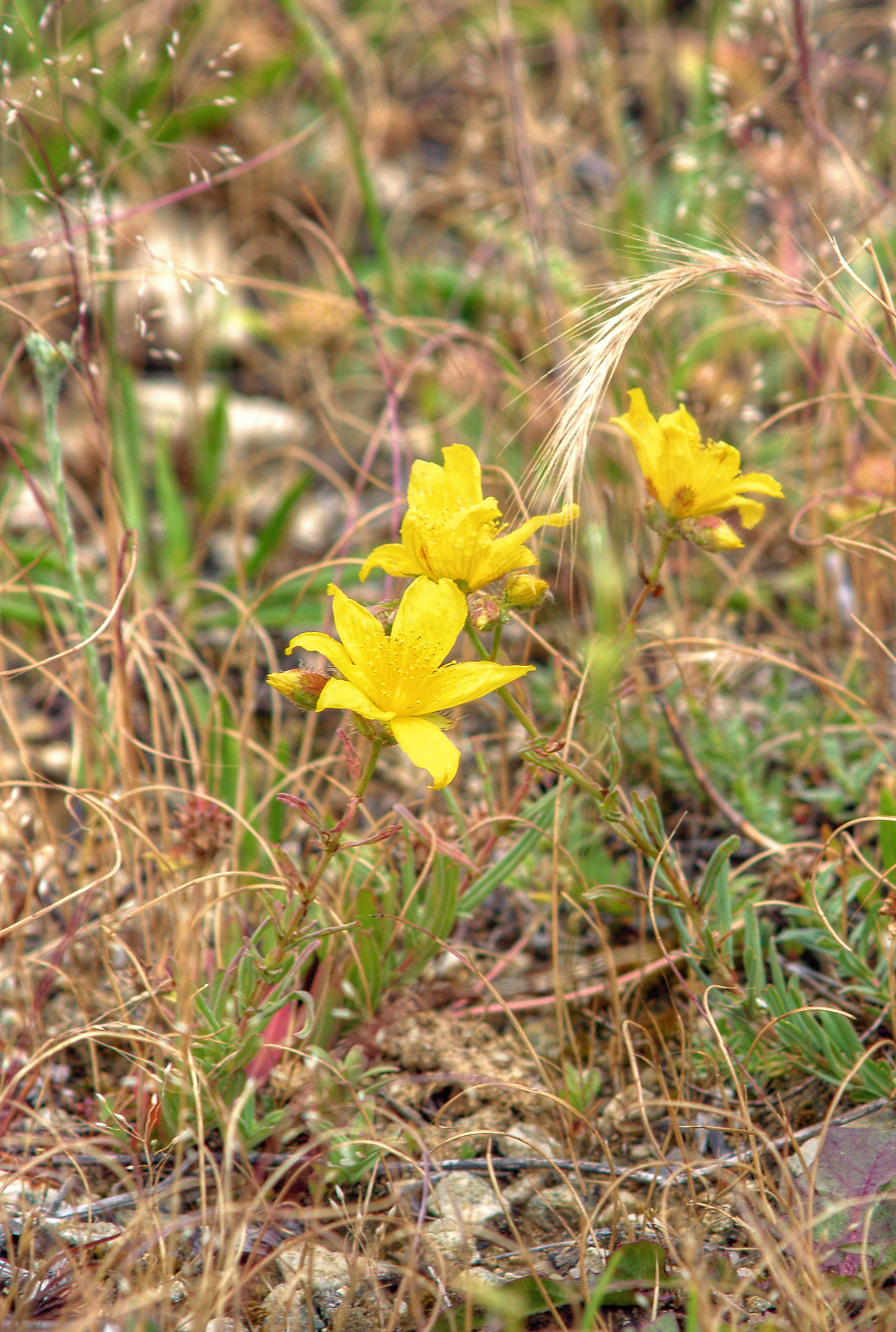 Hypericum thasium, Thasos, Greece